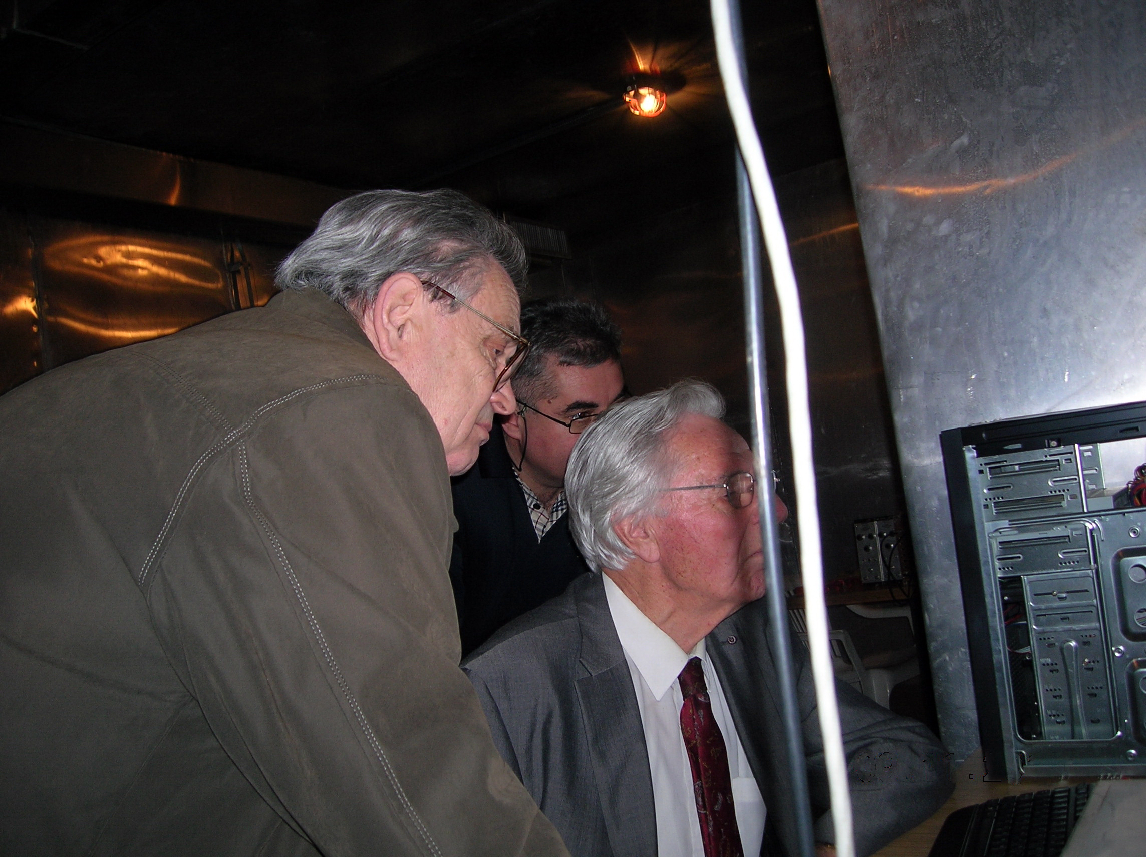 Aničin - Wolfendale - Puzović - LLL (Low Level Laboratory) - Low Background Level Radiation Laboratory - Cosmic Ray Lab - Institute of Physics Belgrade Professor dr Ivan Aničin (left; standing), professor dr Jovan Puzović (CERN; Faculty of Physics, University of Belgrade) (in the middle; standing), professor dr Arnold Whittaker Wolfendale FRS (right, sitting). Prof. Wolfendale's visit to prof. Aničin and Low Level Laboratory at Institute of Physics Belgrade. Watching the results of Cosmic Ray measurements in the 3L Lab. Sir Arnold Whittaker Wolfendale FRS (born 25 June 1927, Rugby, Warwickshire [1]) is a British astronomer who served as Astronomer Royal from 1991 to 1995.